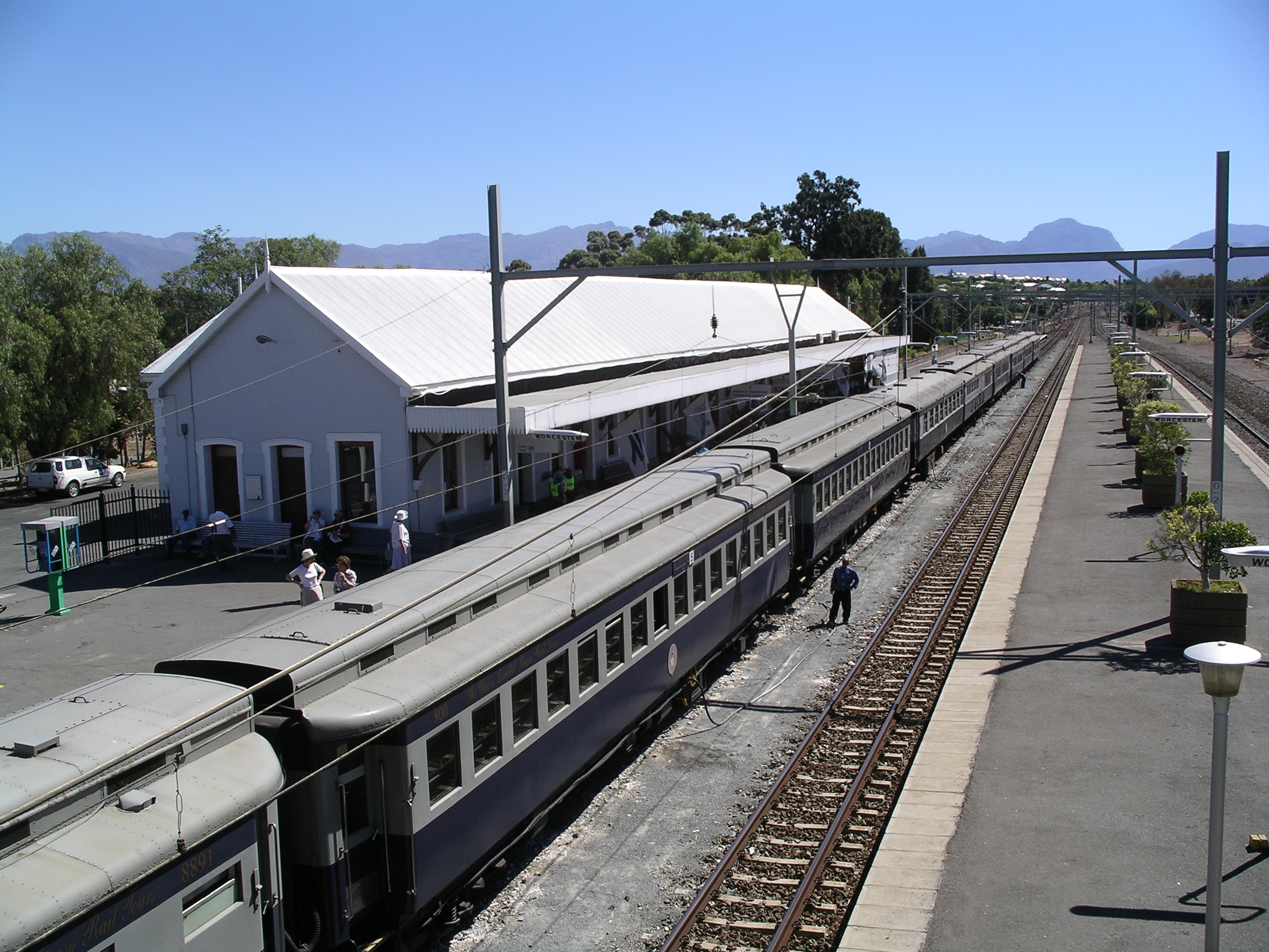 Railway station Worcester in South Africa